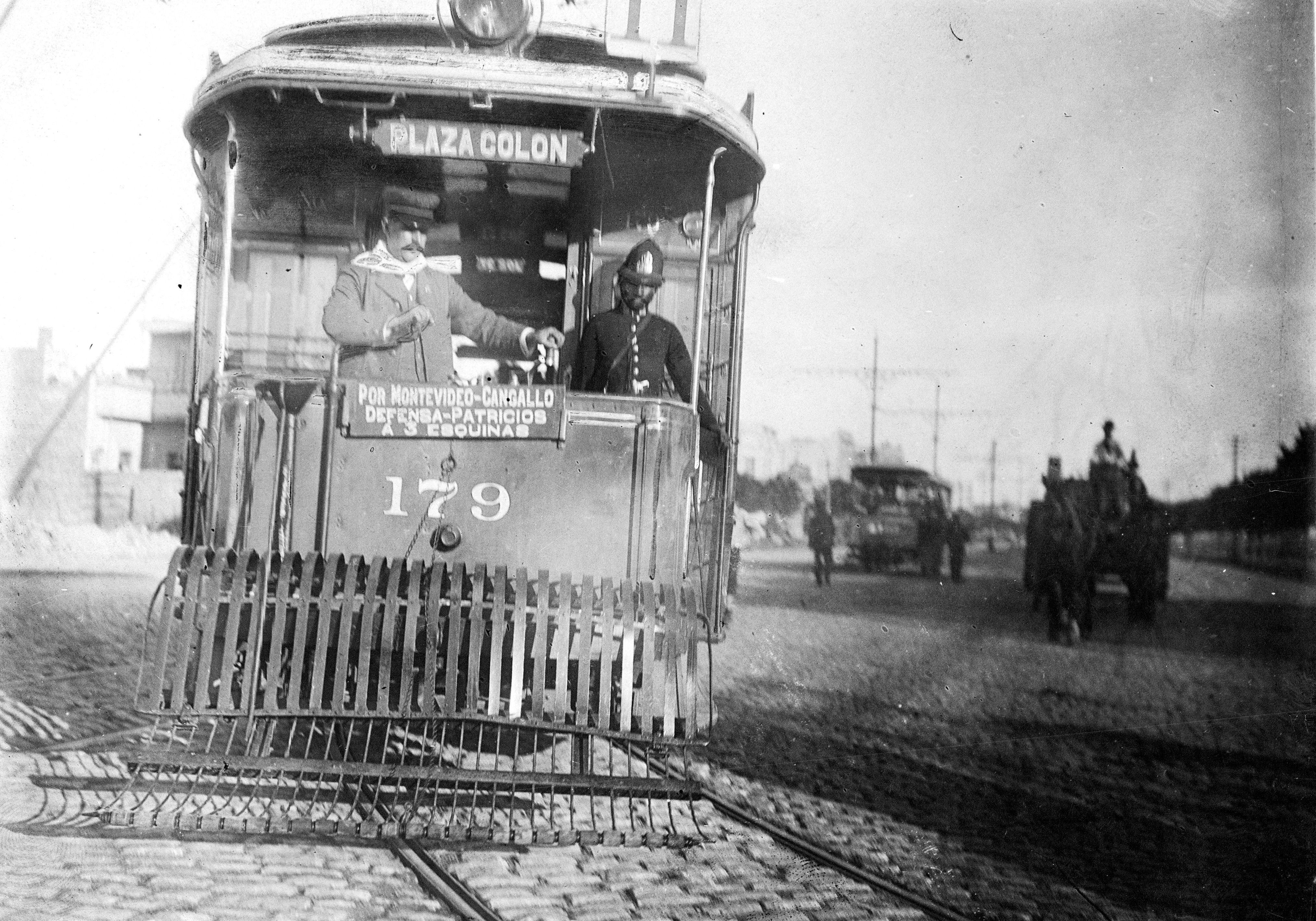 Tram line n° 179 running in Buenos Aires.